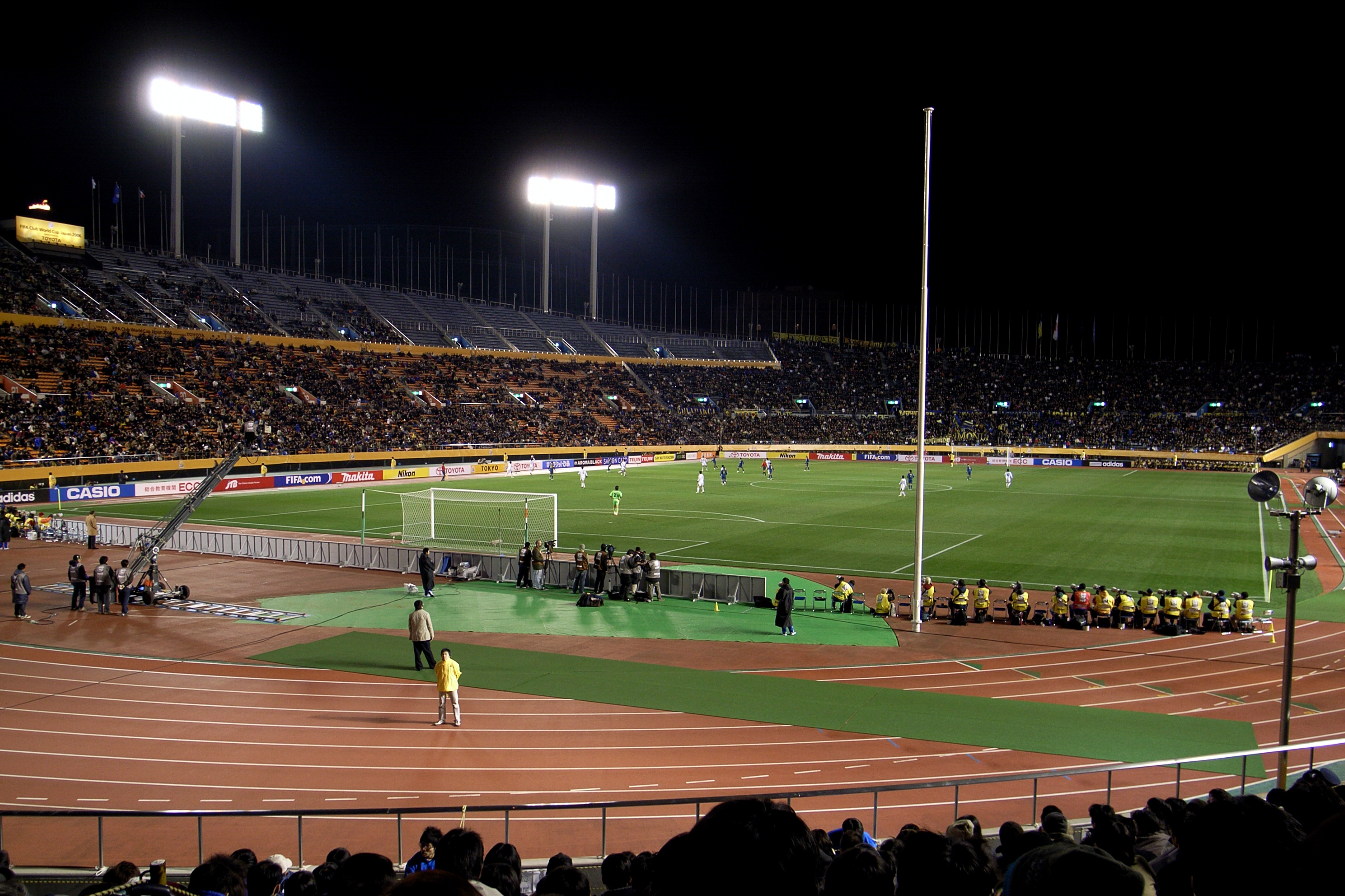 Toyota Club World Cup 2006 match in Japan. Jeonbuk (South Korea, AFC) - Club América (Mexico, CONCACAF).